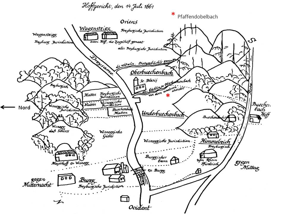 Map of 1661 showing Buchenbach, a Black Forst village, Baden-Württemberg